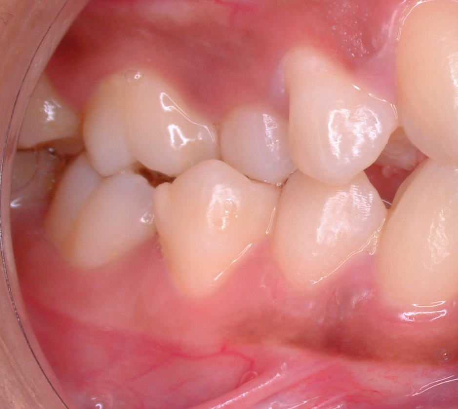 Class II human Molar relationsship. The mesiobuccal cusp of upper molar rest mesial to the lower molars